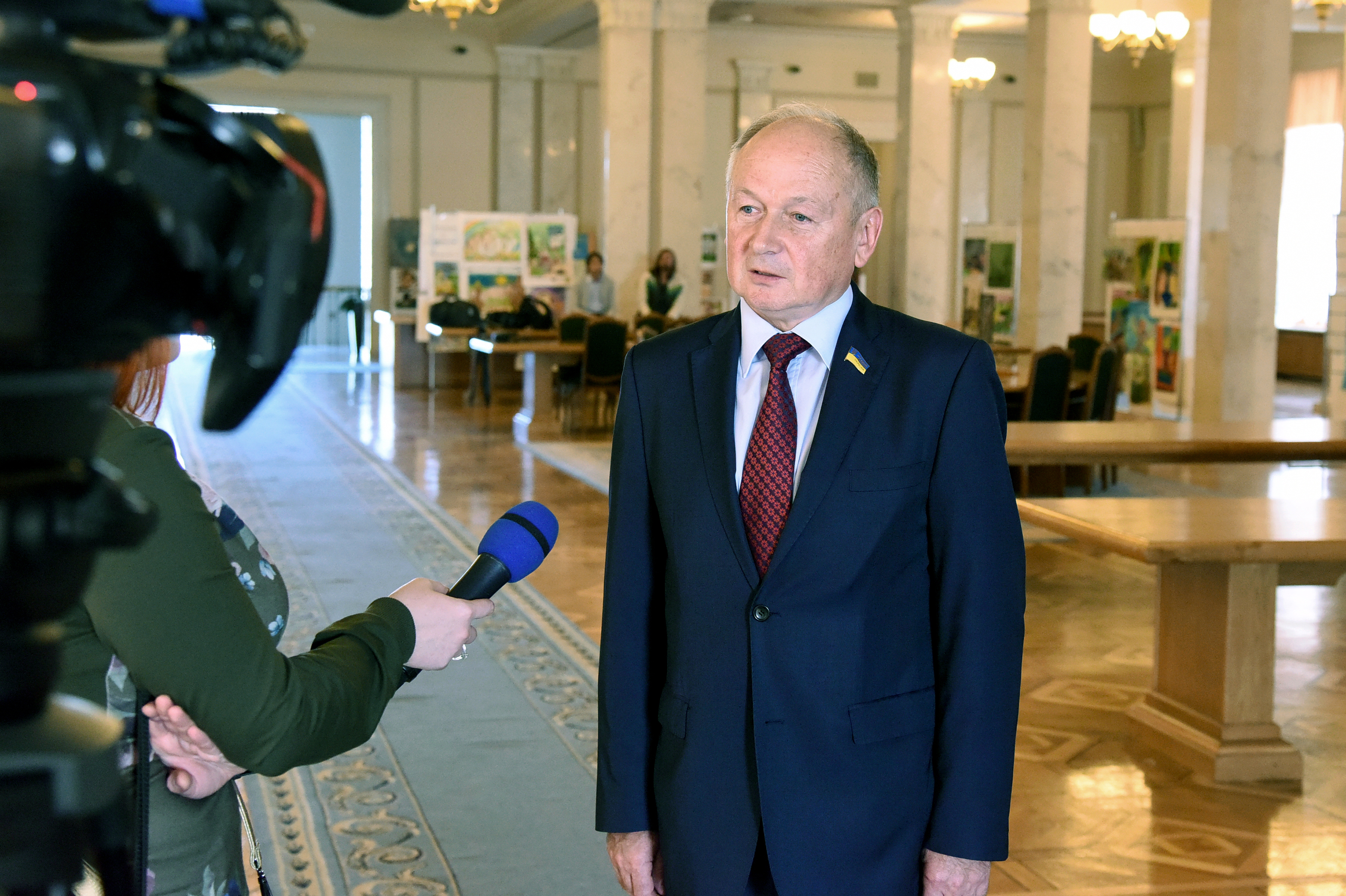 PARLIAMENT OF UKRAINE_2018